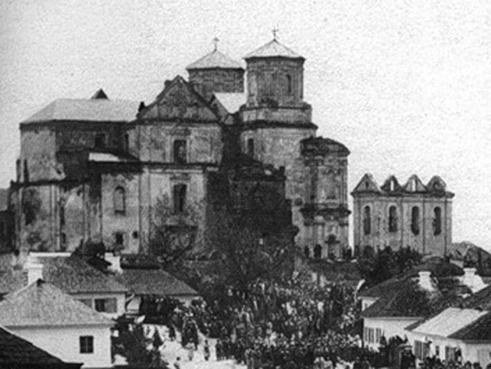 Cropped image File:Володимир. Хресна хода до Успенської катедри.jpg.